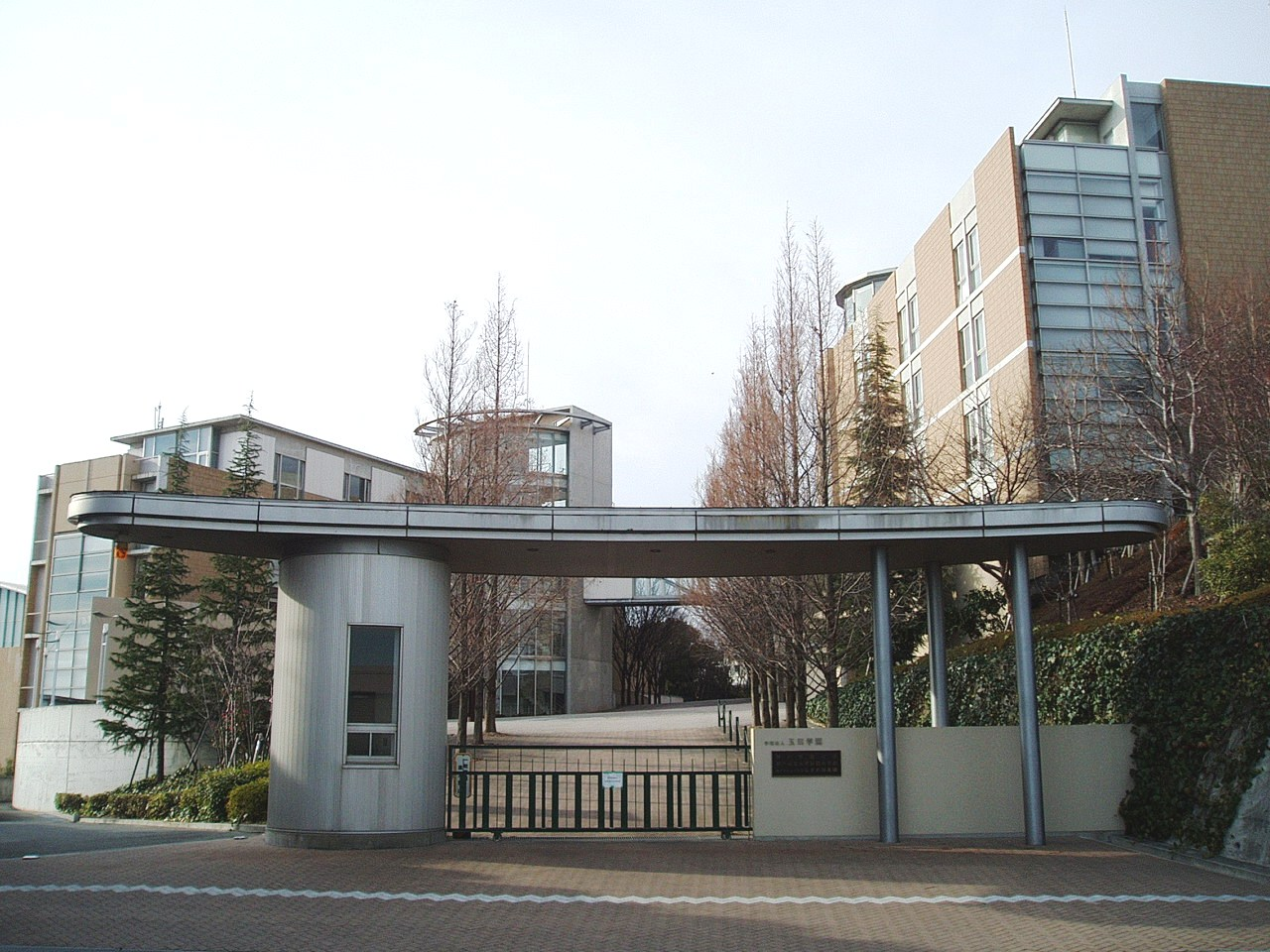 The main gate of Kobe Tokiwa University located in Nagata-ku, Kobe, Hyogo Pref., Japan.